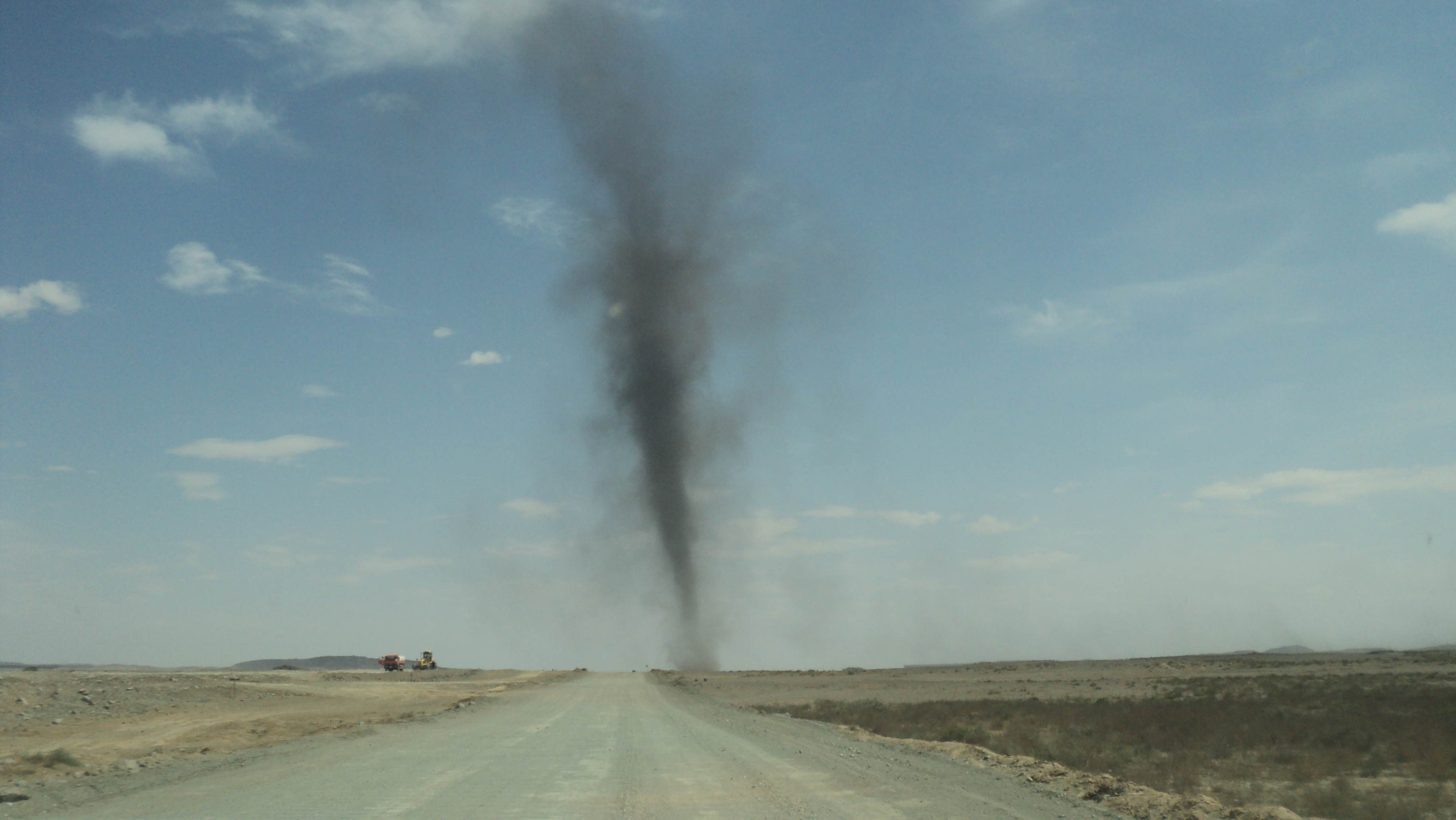 Coal devil at the coal storage town of Tsagaan Khad, Mongolia (15km north from Mongolia-China border). On the way from Oyu Tolgoi mine to the Gashuunsukhait-Ganqimaodao border crossing.